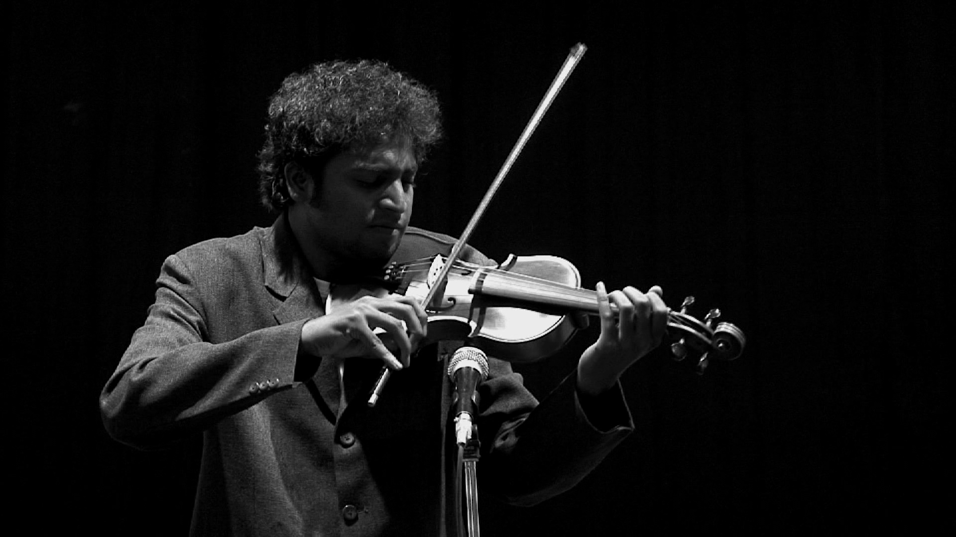 Gifton Elias while performing live @ the Birla Science Museum on 20 June 2013